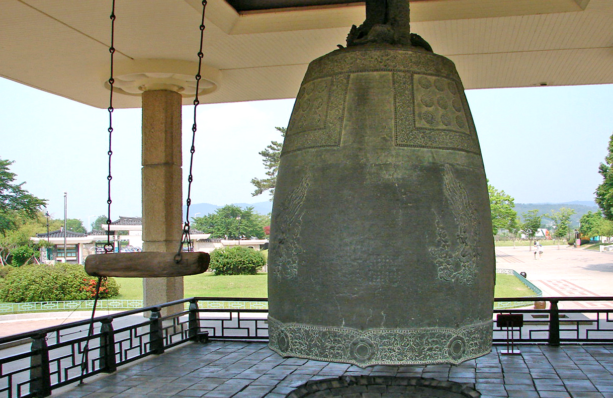 The Bell of King Seongdeok, known as the Emille Bell, a massive bronze bell at 19 tons is the largest in Korea. Cast in 771, the bell considered a masterpiece of Unified Silla art and is it is now on display in the National Museum of Gyeongju. The bell is designated National Treasure of Korea #29.